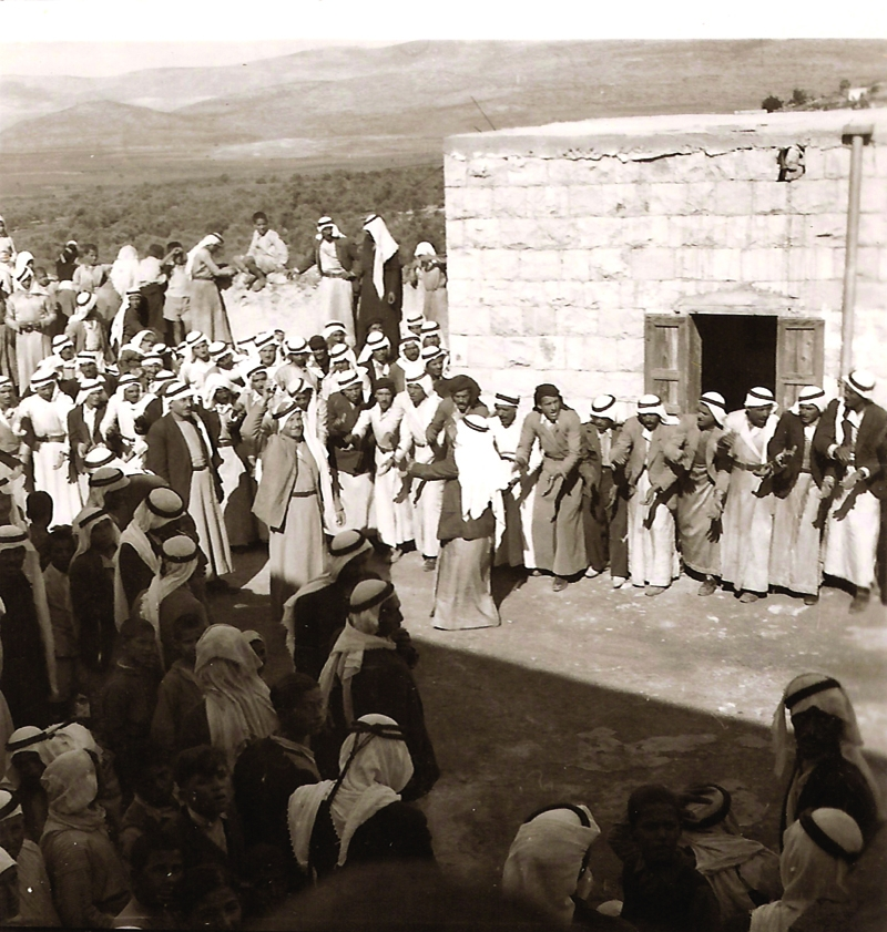 Arab wedding, People of Israel